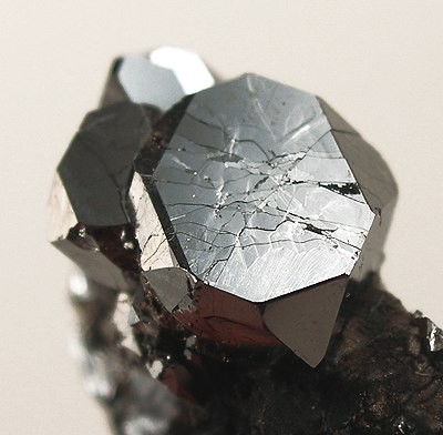 Sperrylite Locality: Talnakh Cu-Ni Deposit, Noril'sk, Putoran Plateau, Taimyr Peninsula, Taymyrskiy Autonomous Okrug, Eastern-Siberian Region, Russia (Locality at ) Size: 2.8 x 1.9 x 0.9 cm. A sharp, very brilliant crystal of 7mm stands out on a cluster of smaller crystals, all displayed dramatically on a natural pedestal of this ore/sulfide matrix. Sperrylite is a rare platinum-containing species that crystallizes in large and beautiful form. This crystal has superb lustre and a brilliant shine to it in person. The main crystal here is remarkable for its symmetry and that all corners are on display. These came out mostly in the early 1990s to the market, though many were said to have been mined in the 1980s and stored in Russia’s strategic reserves until released for sale.